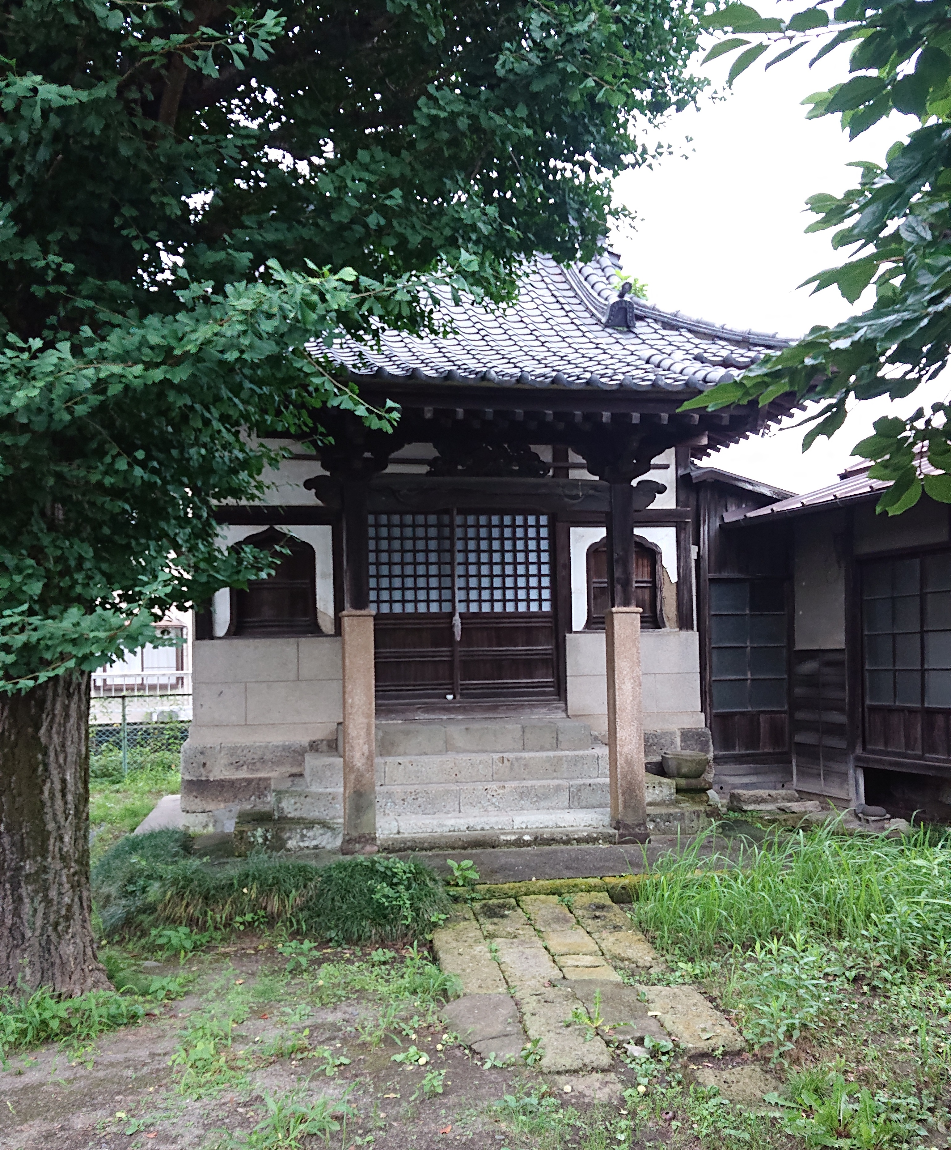 This is Rokudo Emma-do in Utsunomiya, Tochigi, Japan.